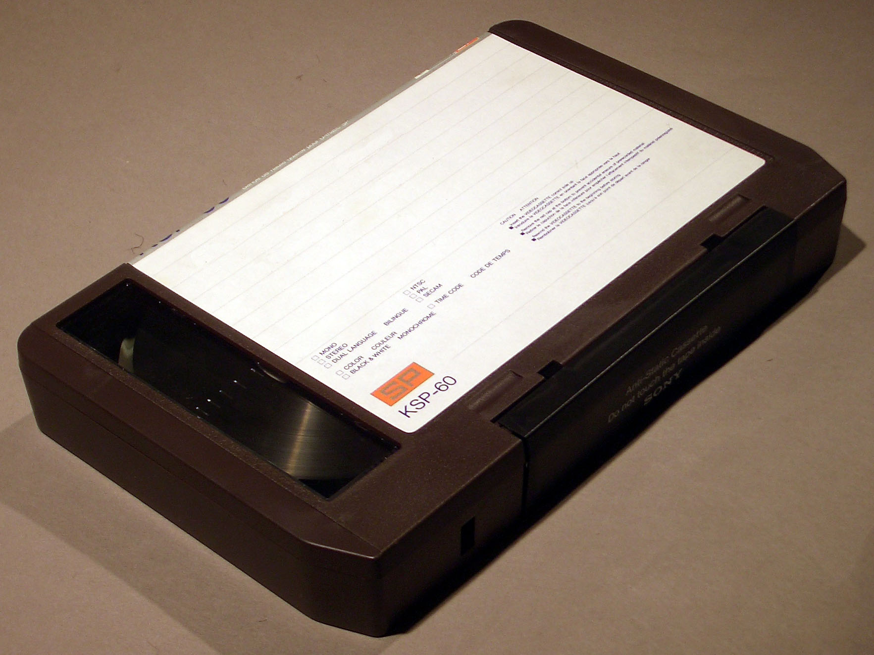 U-matic tape. Photo taken by grm_wnr on day of uploading.